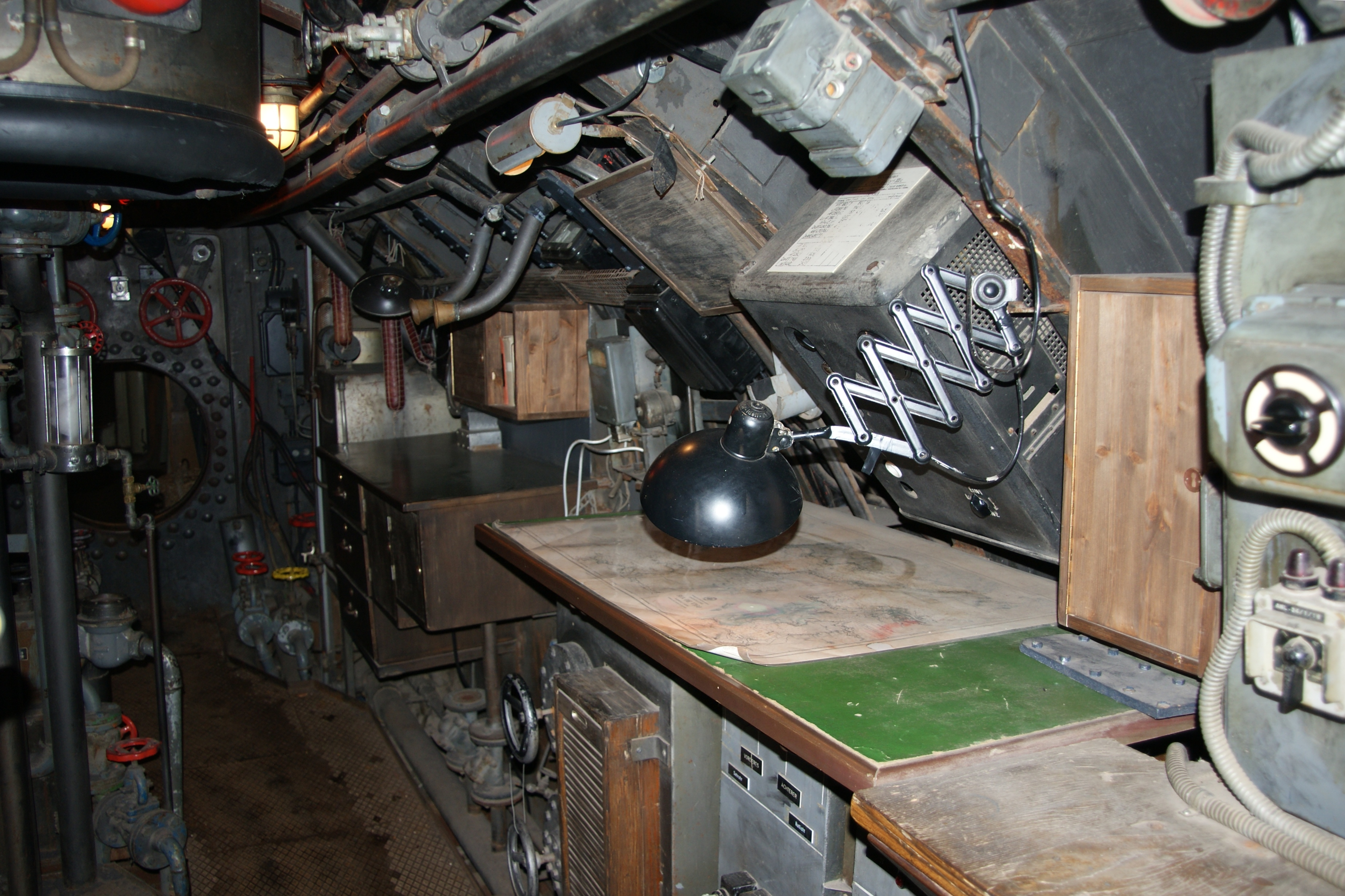 Film set of Das Boot at the Bavaria Film Studios